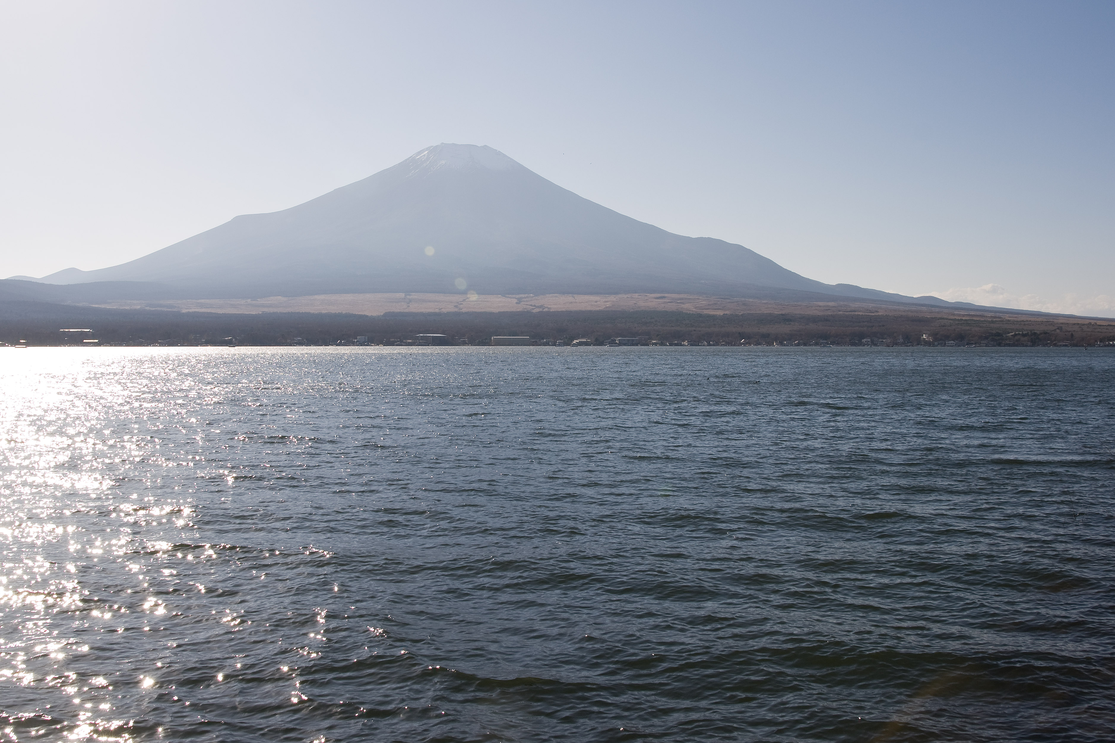 Mt.Fuji and Lake Yamanaka, Yamanashi Pref., Japan.